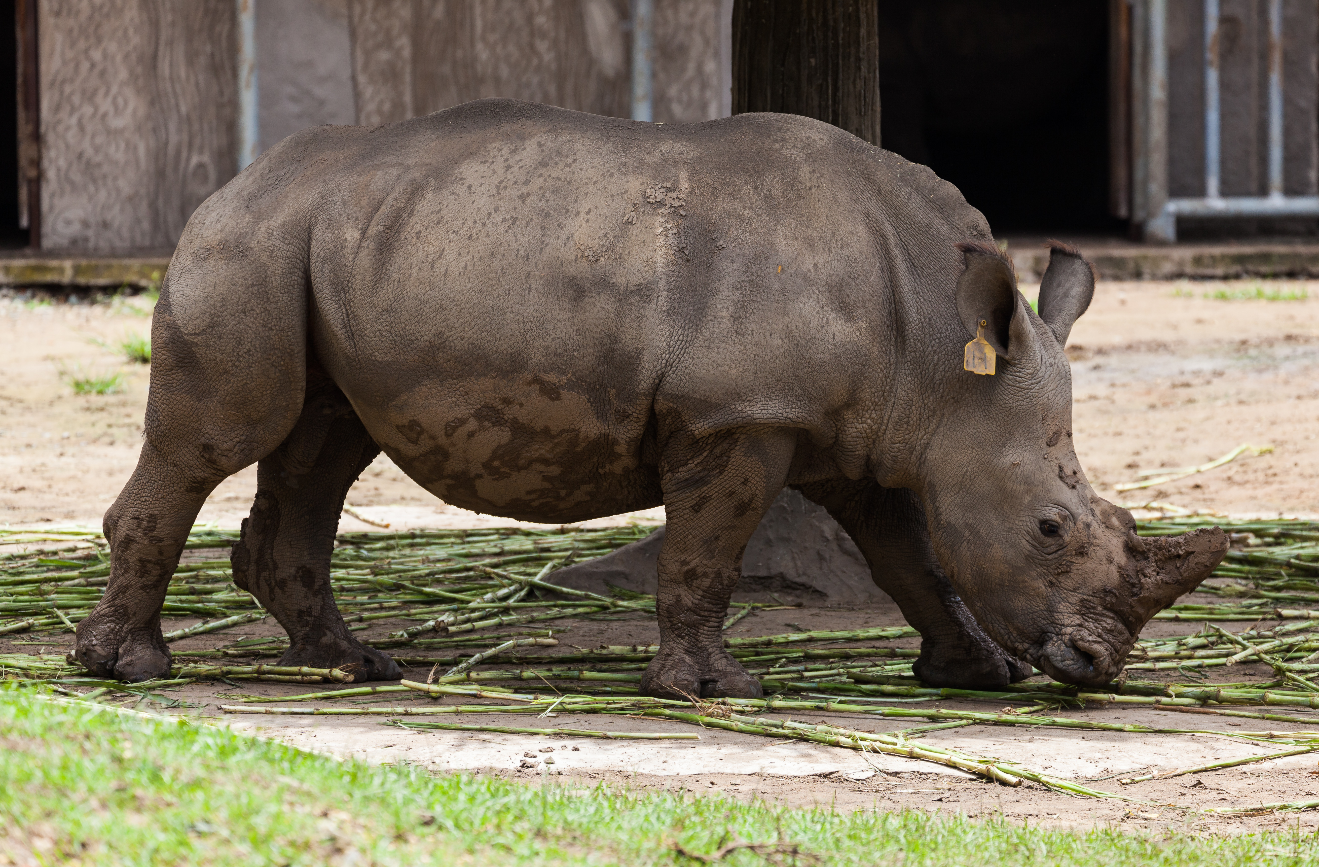 Rhino (Ceratotherium simum), Ho Chi Minh City Zoo, Vietnam